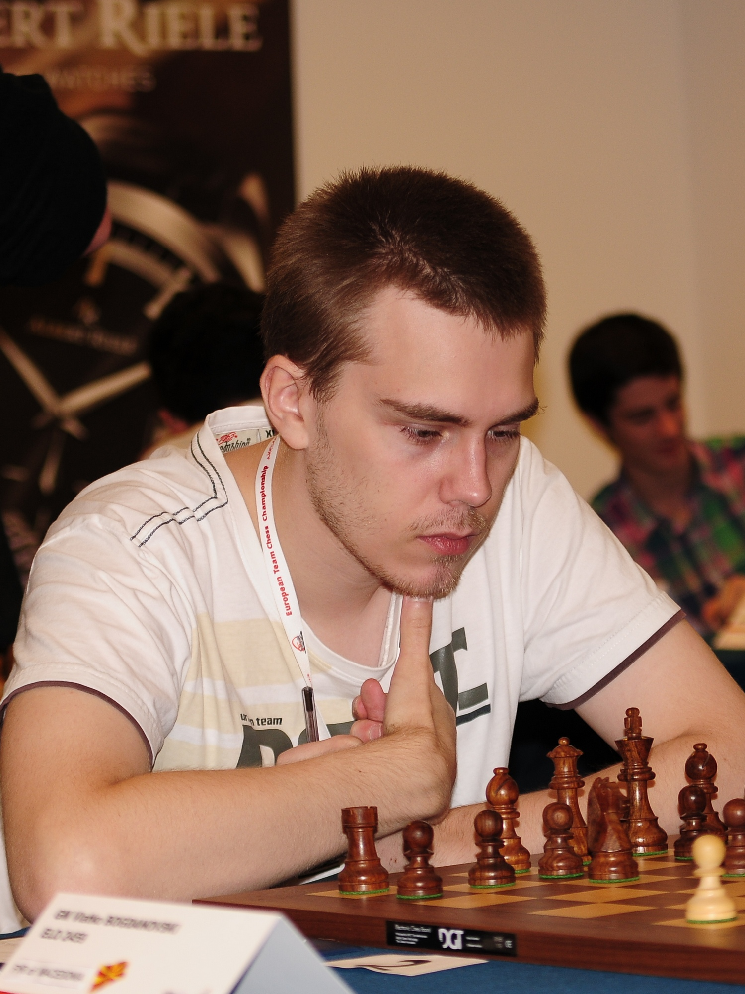 IM Vilka Sipilä, European Chess Team Championship Warsaw 2013